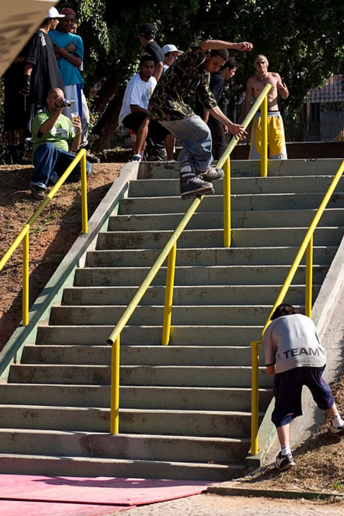 Prática do patins street